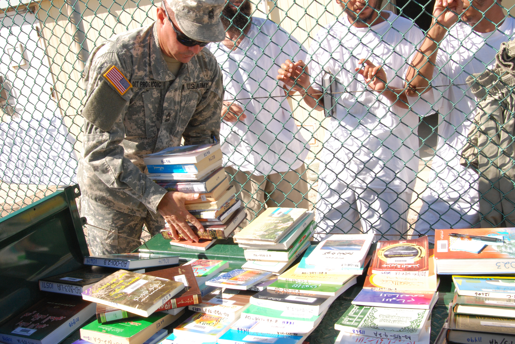 GUANTANAMO BAY, Cuba - A Joint Task Force Guantanamo Trooper displays reading materials from the JTF library for detainees to choose from Nov. 18, 2008. Detainees regularly choose from the library’s holdings of 8,000 books and magazines in English, Pashtu and Arabic. (JTF Guantanamo photo by Navy Petty Officer 2nd Class Patrick Thompson)